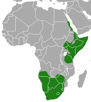 Aardwolf (Proteles cristata) range, along with national borders